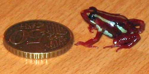 Own work, all right released.